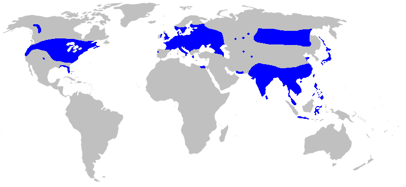 Plant family Acoraceae - geographical distribution